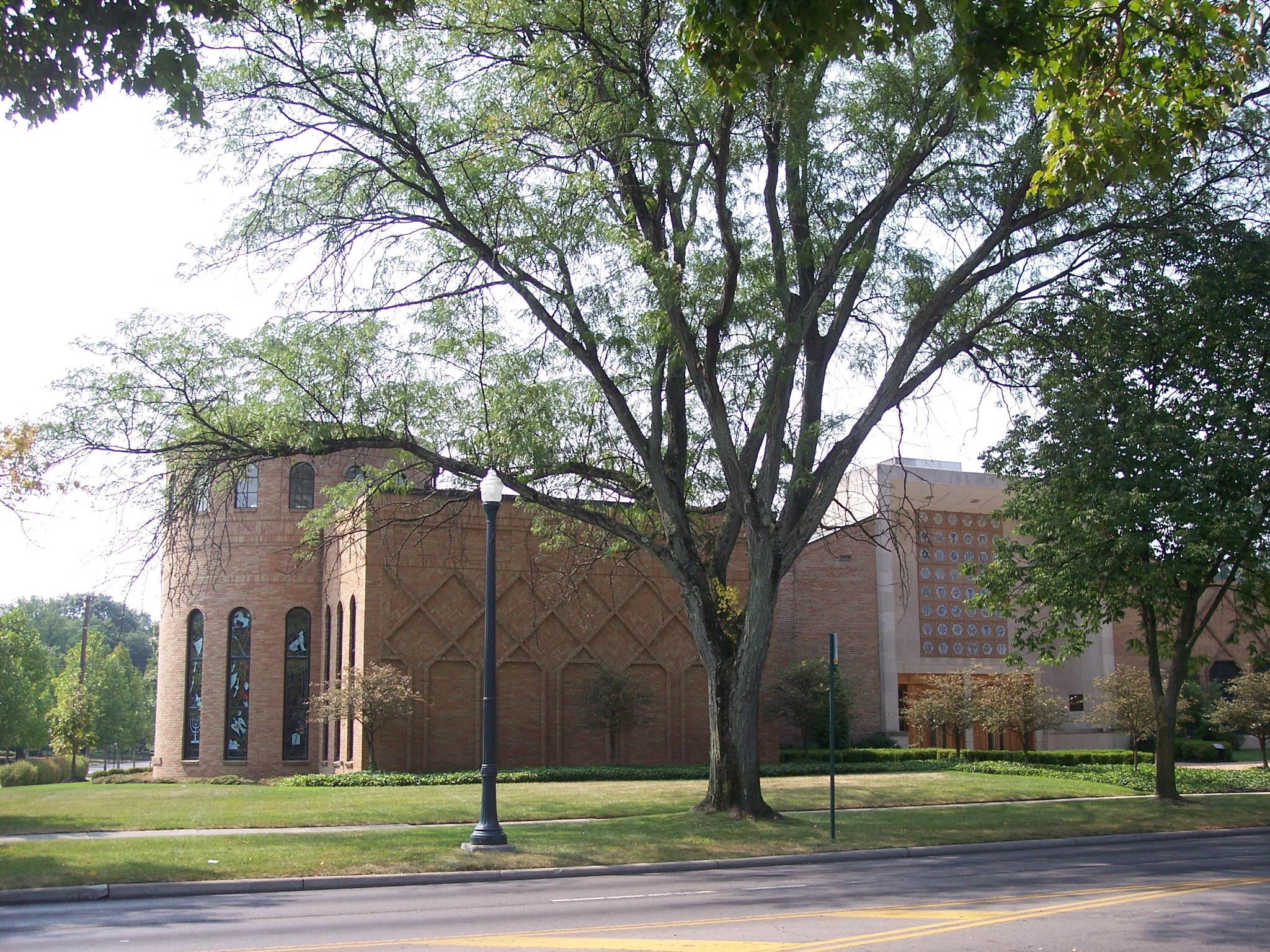 Agudas Achim circa 2011 in Columbus Ohio. Located in Bexley on Broad St. Posted by Ilya Bodner, across the corner of Roosevelt and Broad.